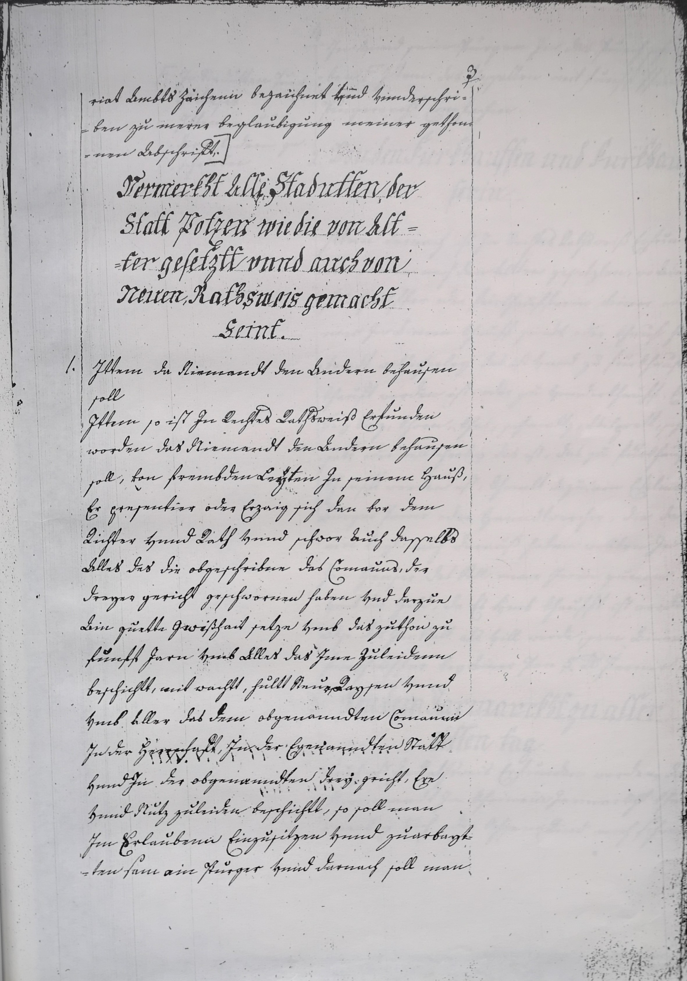 Civic statutes of Bozen from 1437 fol 7